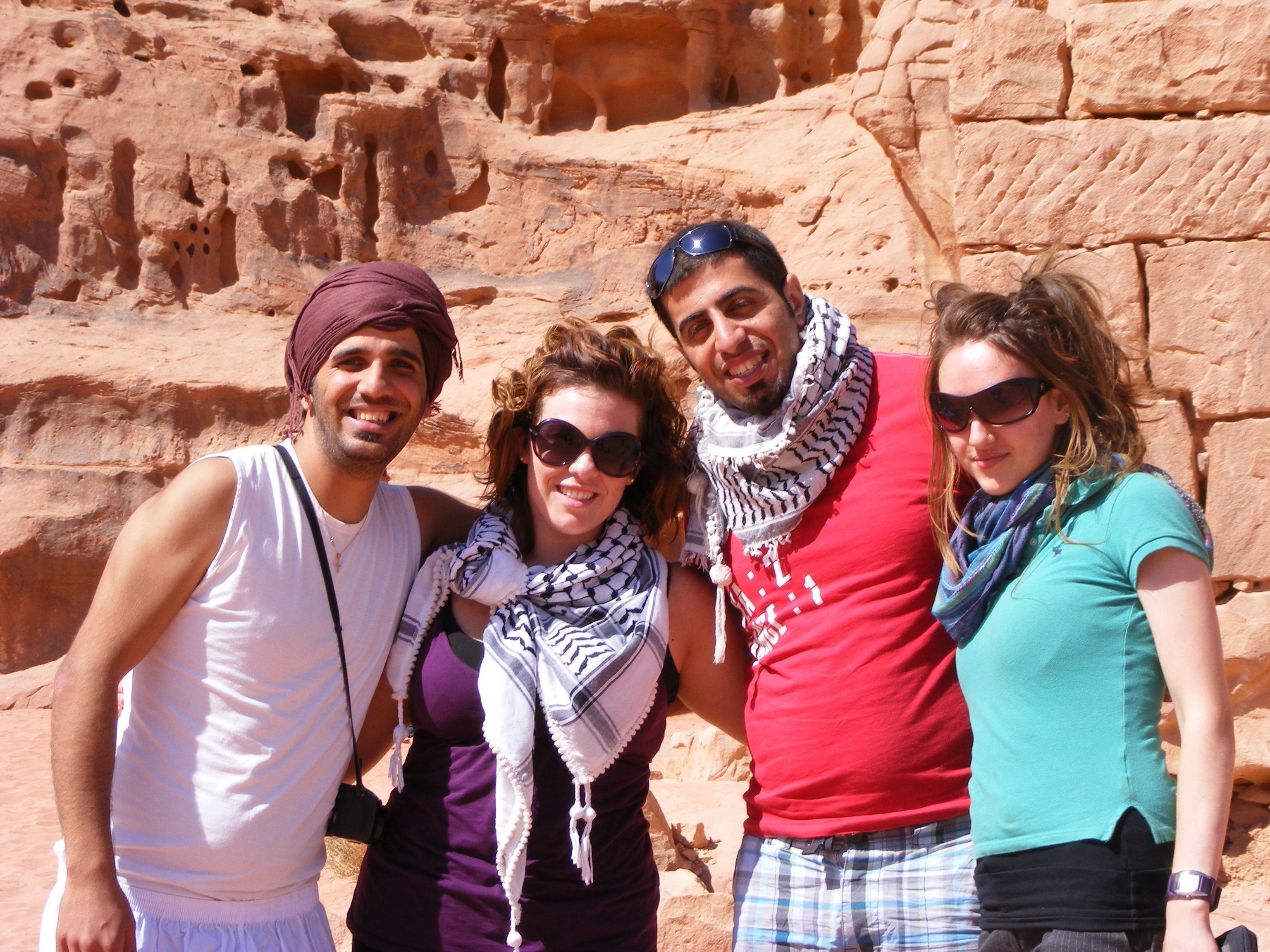 on a youth camp in the desert